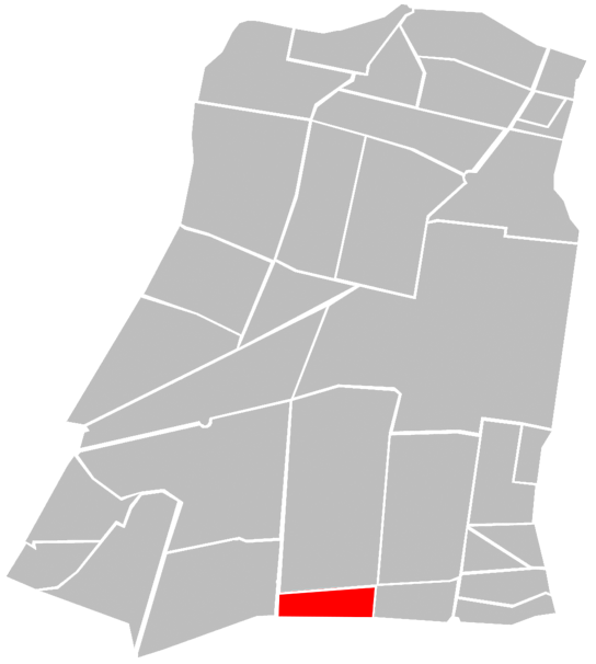 Map of Delegación Cuauhtémoc in Mexico City, with Colonia Buenos Aires highlighted in red